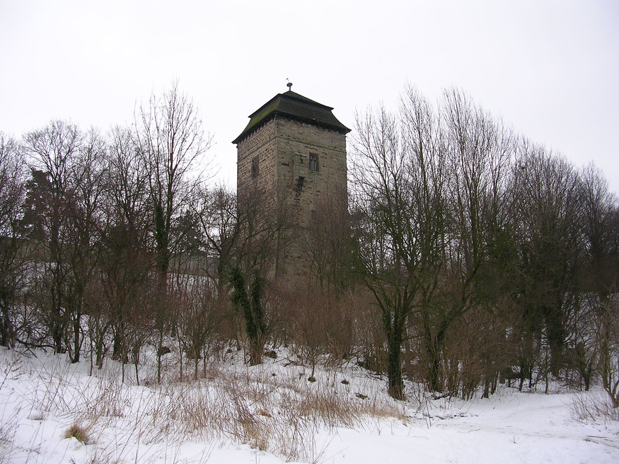 Tuchoraz, Central Bohemian Region, the Czech Republic.